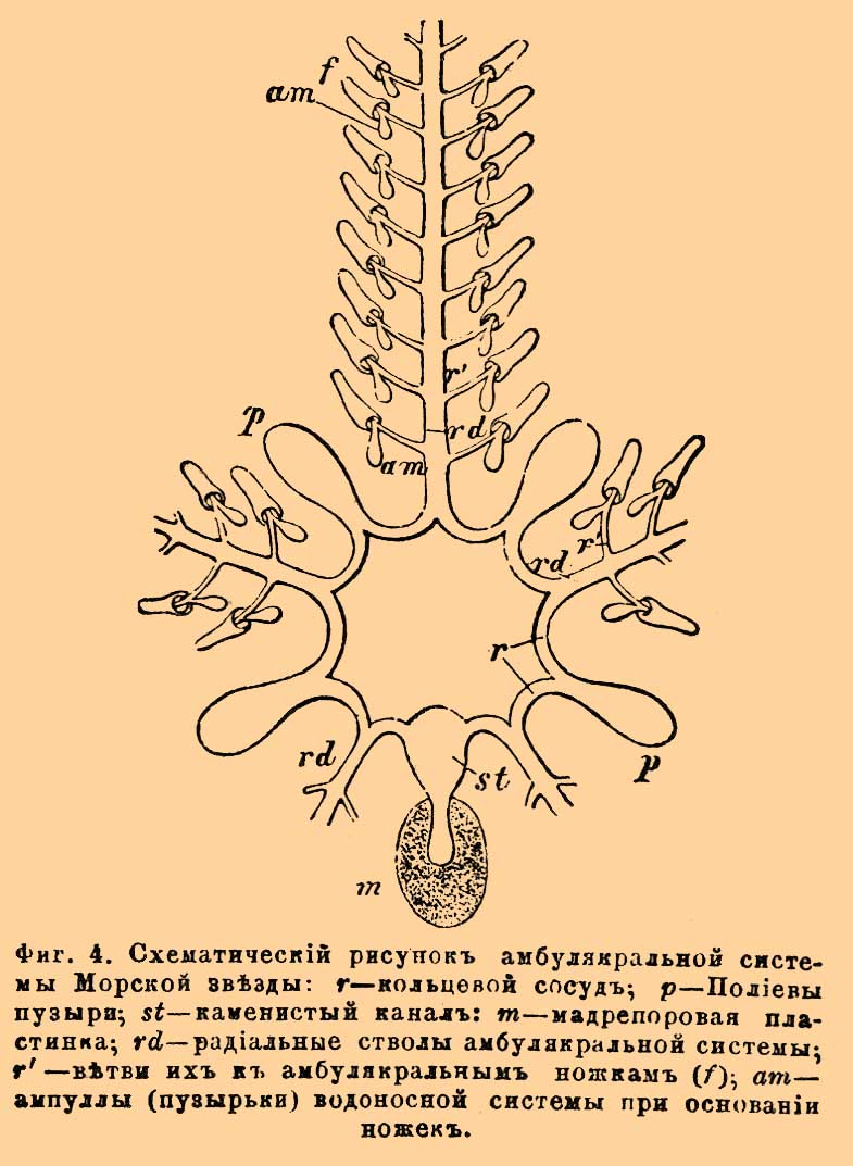 Illustration from Brockhaus and Efron Encyclopedic Dictionary (1890—1907)